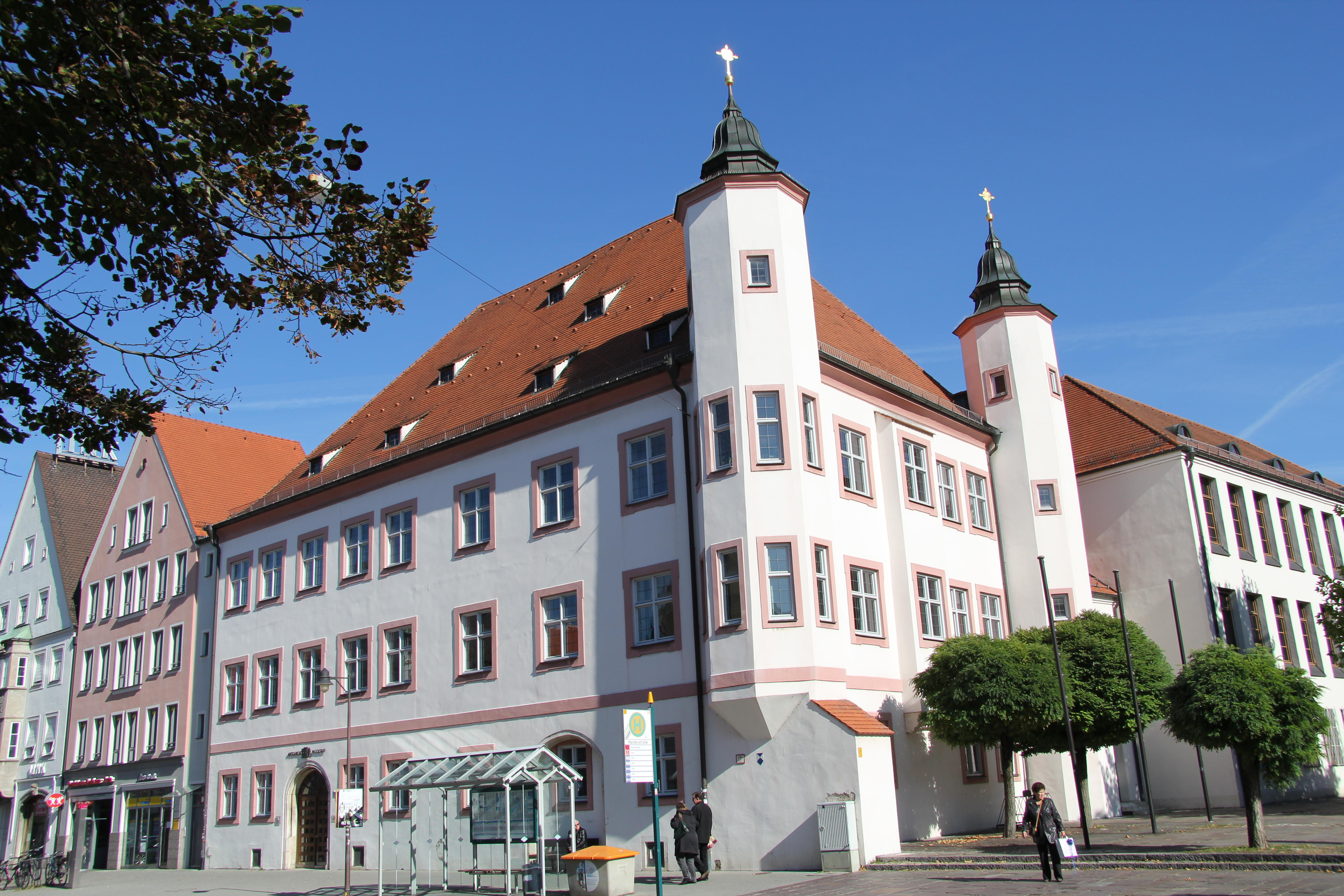 Ingolstadt, Kaisheimer Haus with District court, Harderstraße 6